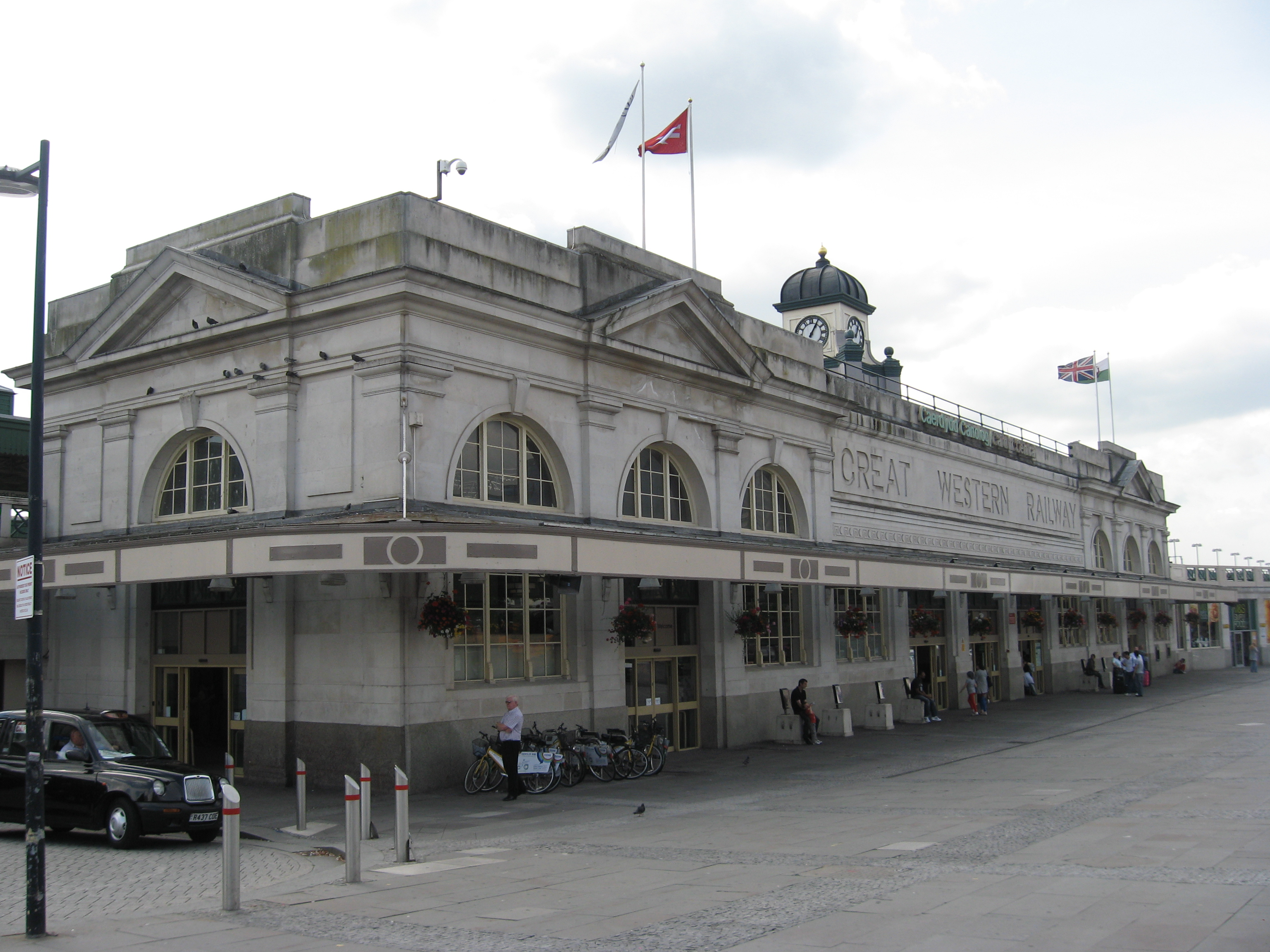 Cardiff Central railway station, Cardiff, Wales